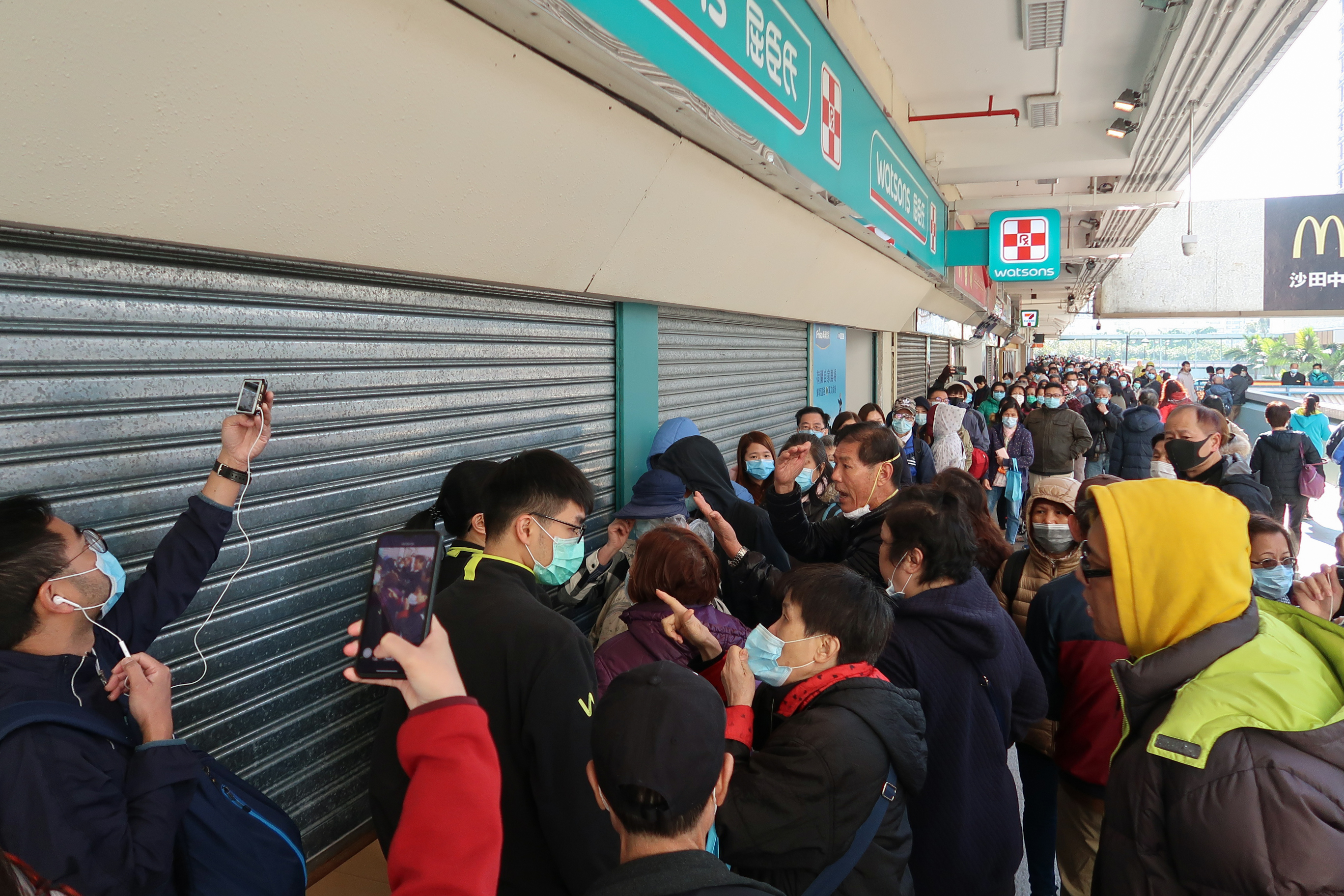 People argue with the Watson staff in Lucky Plaza